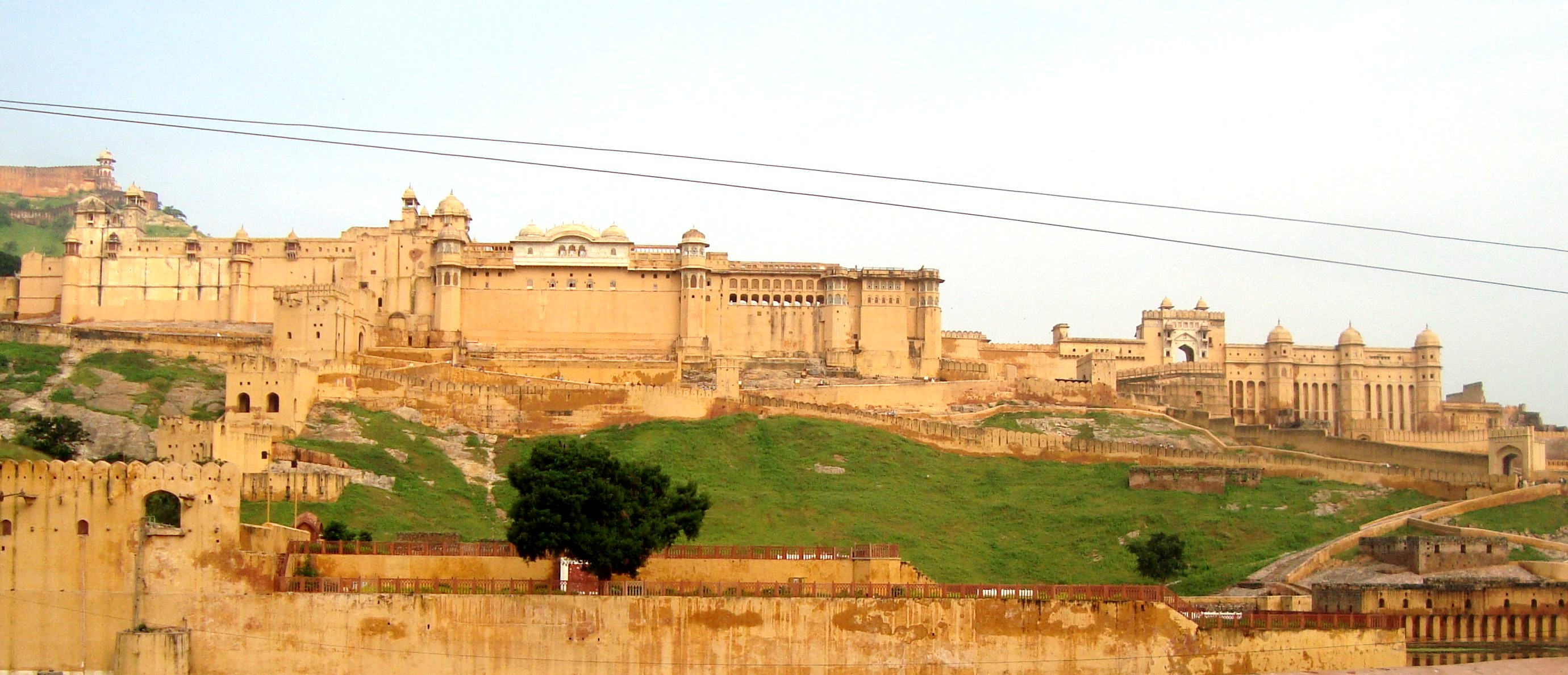 Amber Fort, Jaipur, Rajasthan, India